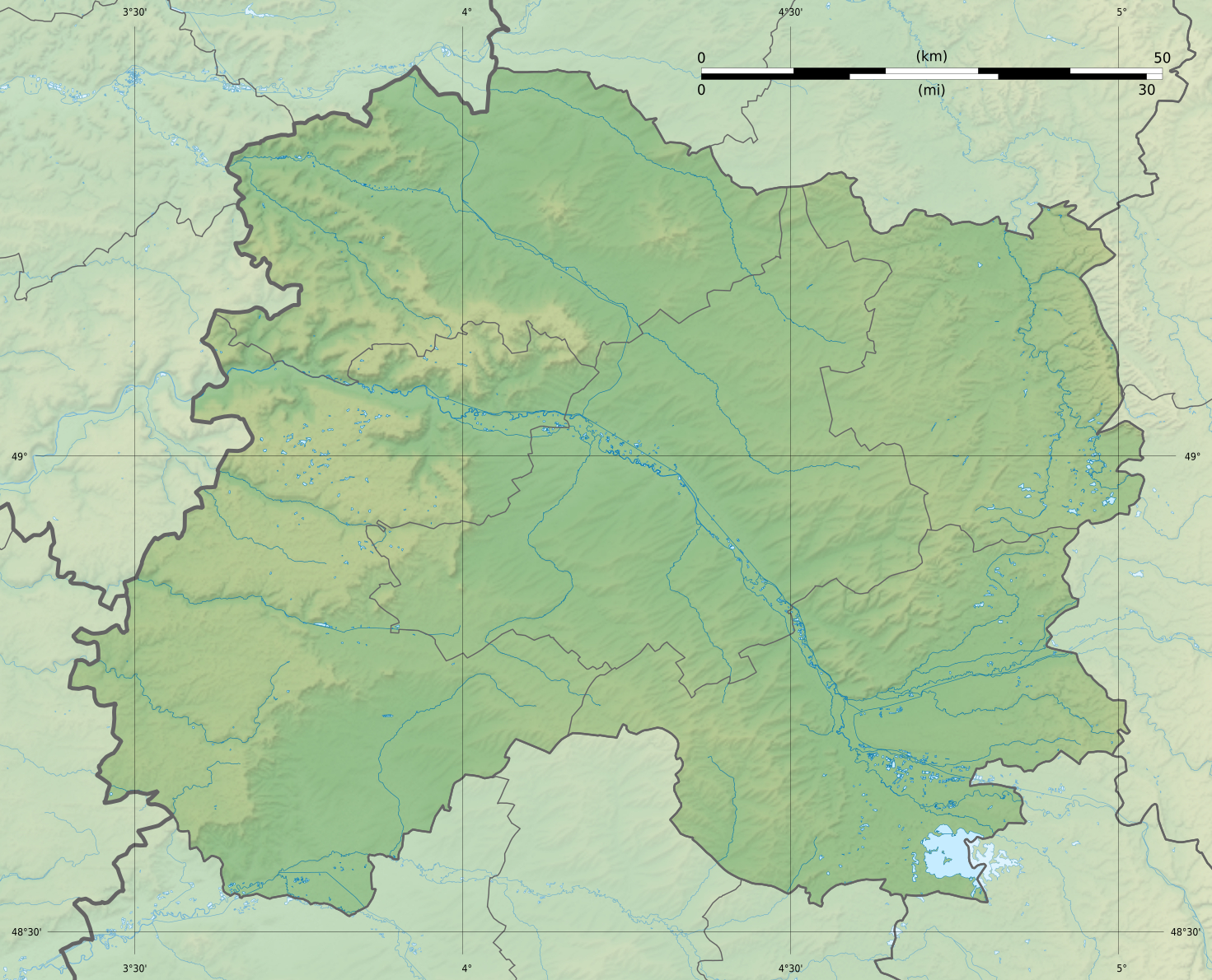 Blank physical map of the department of Marne, France, for geo-location purpose.